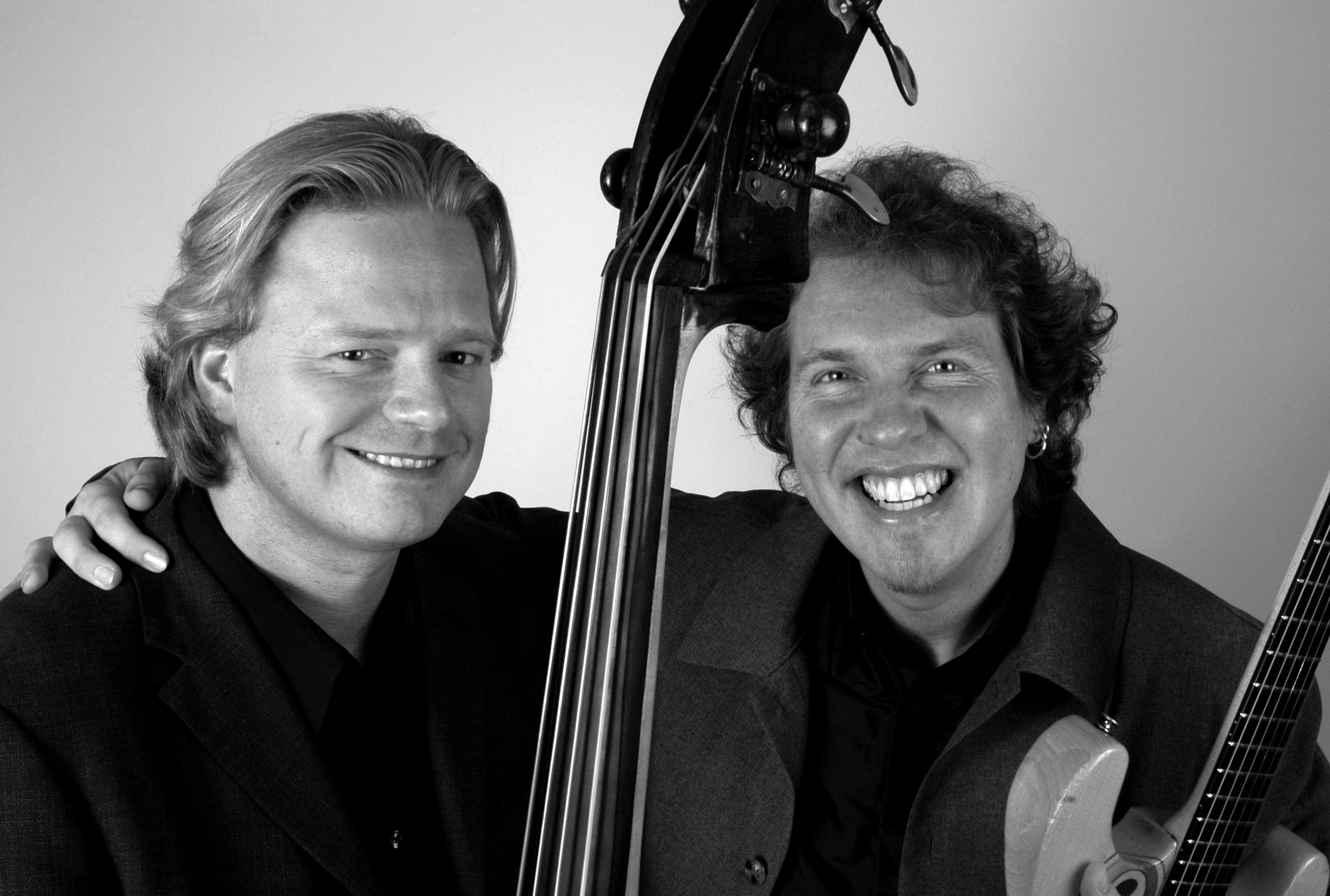 Bassplayer Harald Johnsen and guitarplayer Frode Barth at photoshoot for their record "Blue Spheres". Photo: Roar Vestad